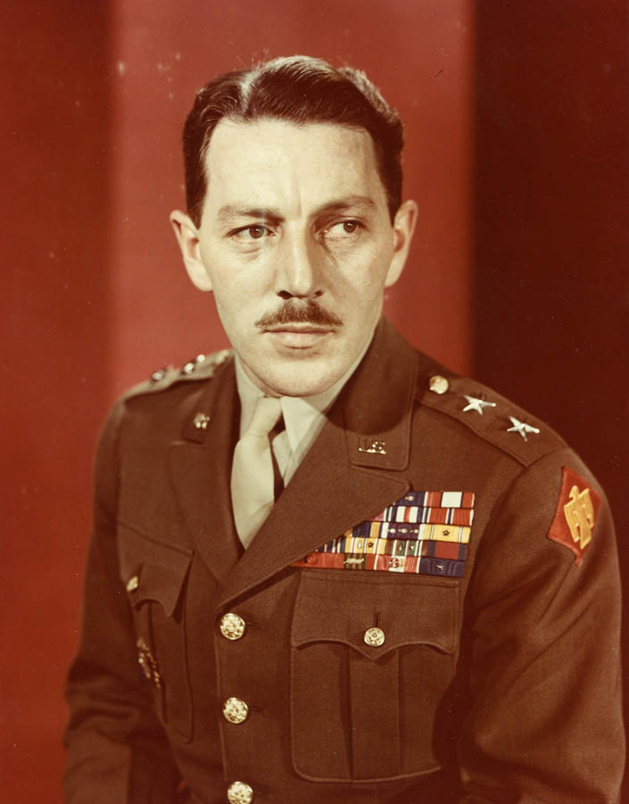 Robert Tryon Frederick (March 14, 1907 - November 29, 1970) was a highly decorated American combat commander during World War II, who commanded the 1st Special Service Force, the 1st Airborne Task Force and the 45th Infantry Division.